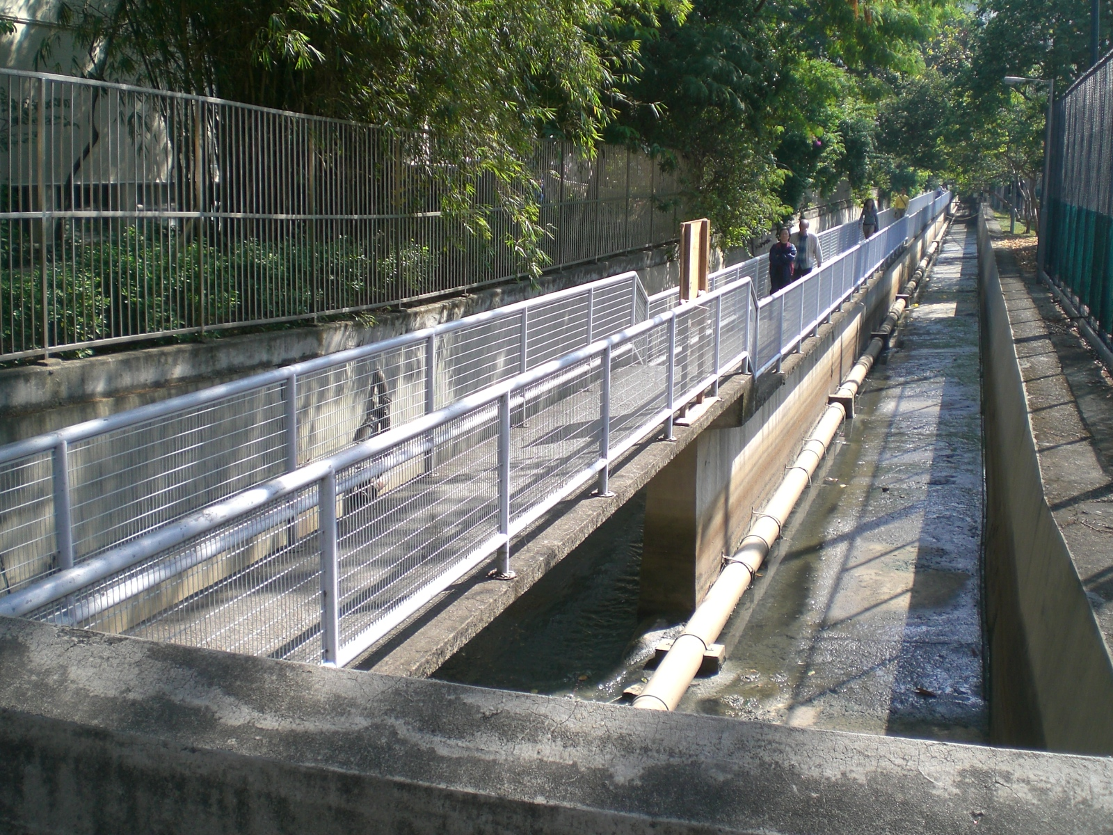 高士威道小徑往大坑, Causeway Road Short Cut.